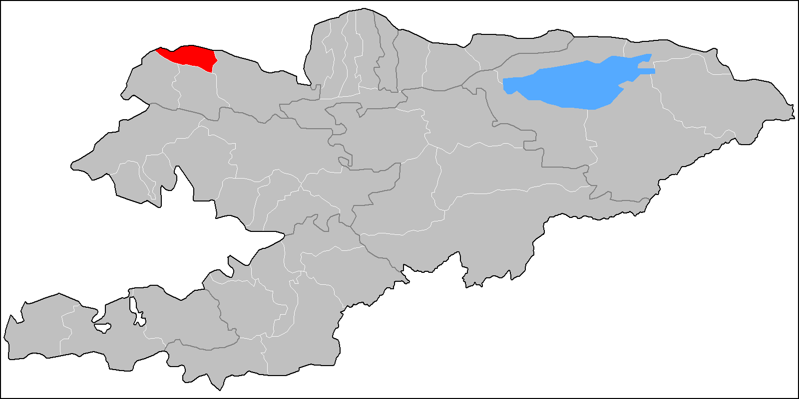 The location of the raion (district) of Manas in Kyrgyzstan. Based on Image:Kyrgyzstan raions.png